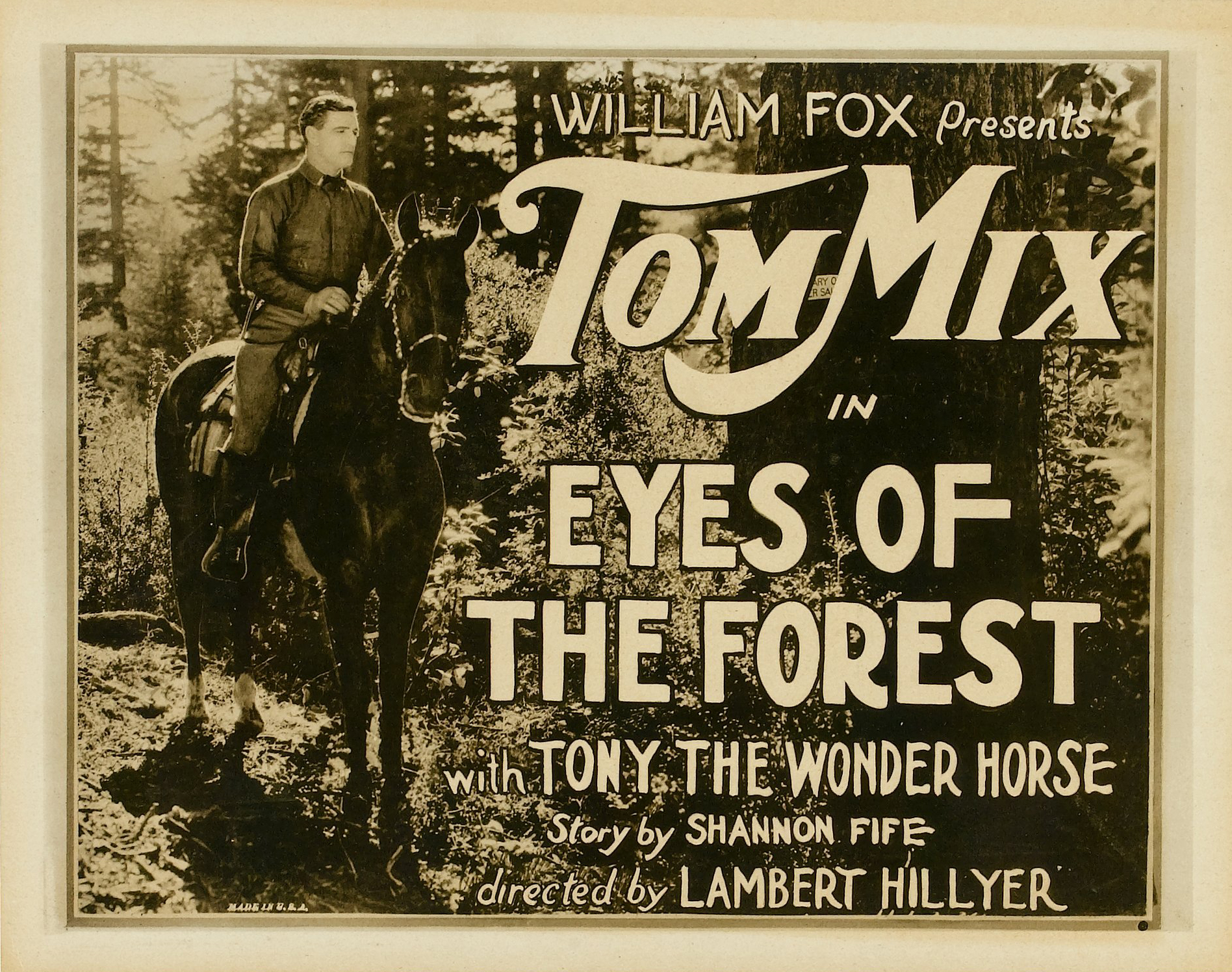 Title lobby card for the 1923 film Eyes of the Forest